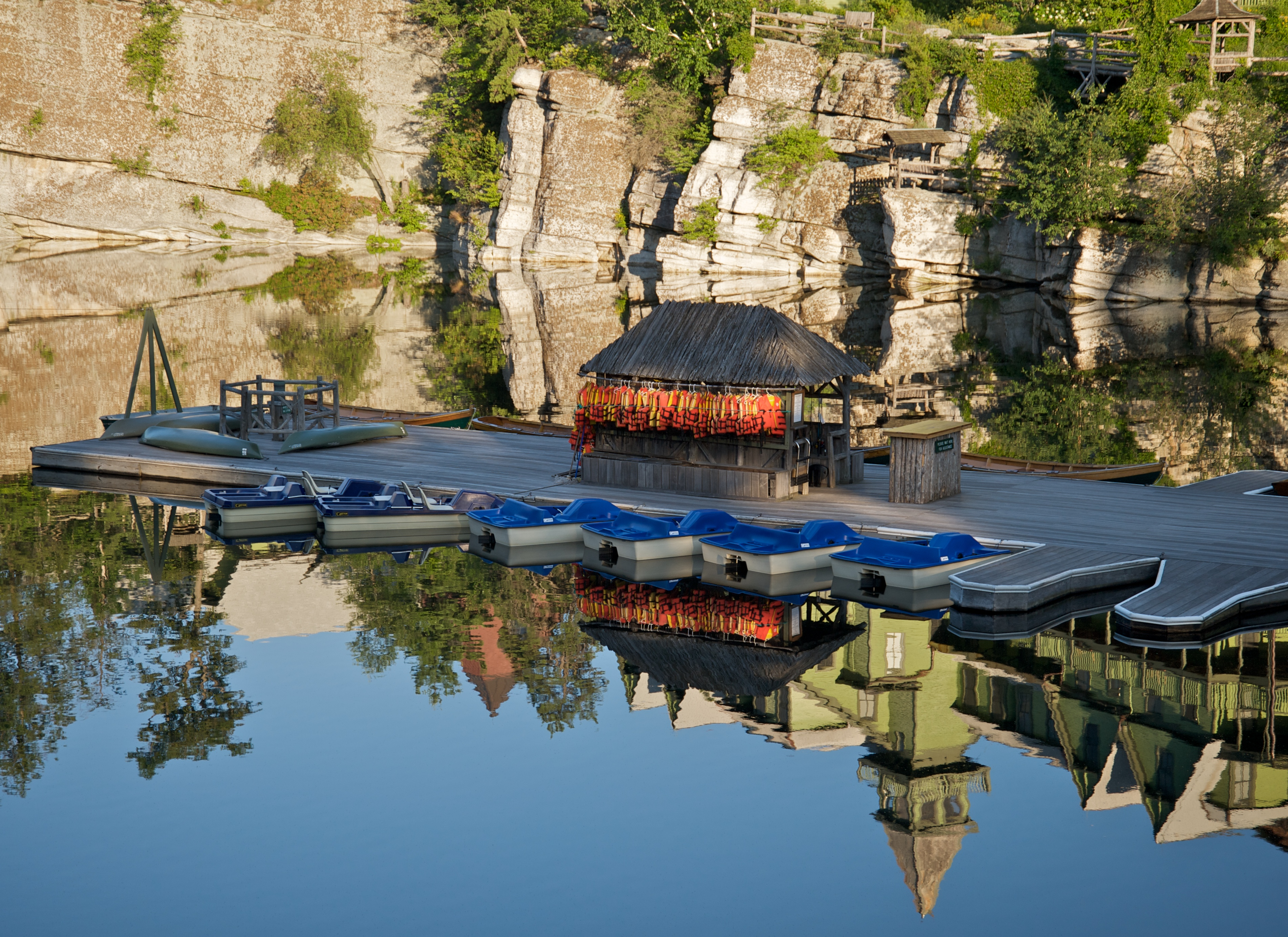 View of the floating dock against reflection of Shawangunk Conglomerate cliff at Mohonk Mountain House